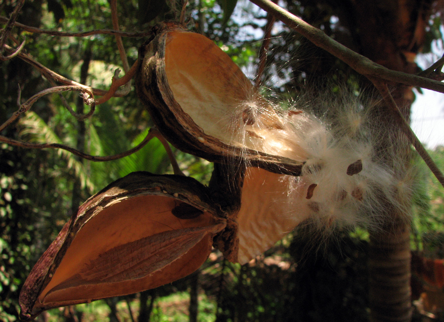 I am not sure but think this is Holostemma_ada-kodien